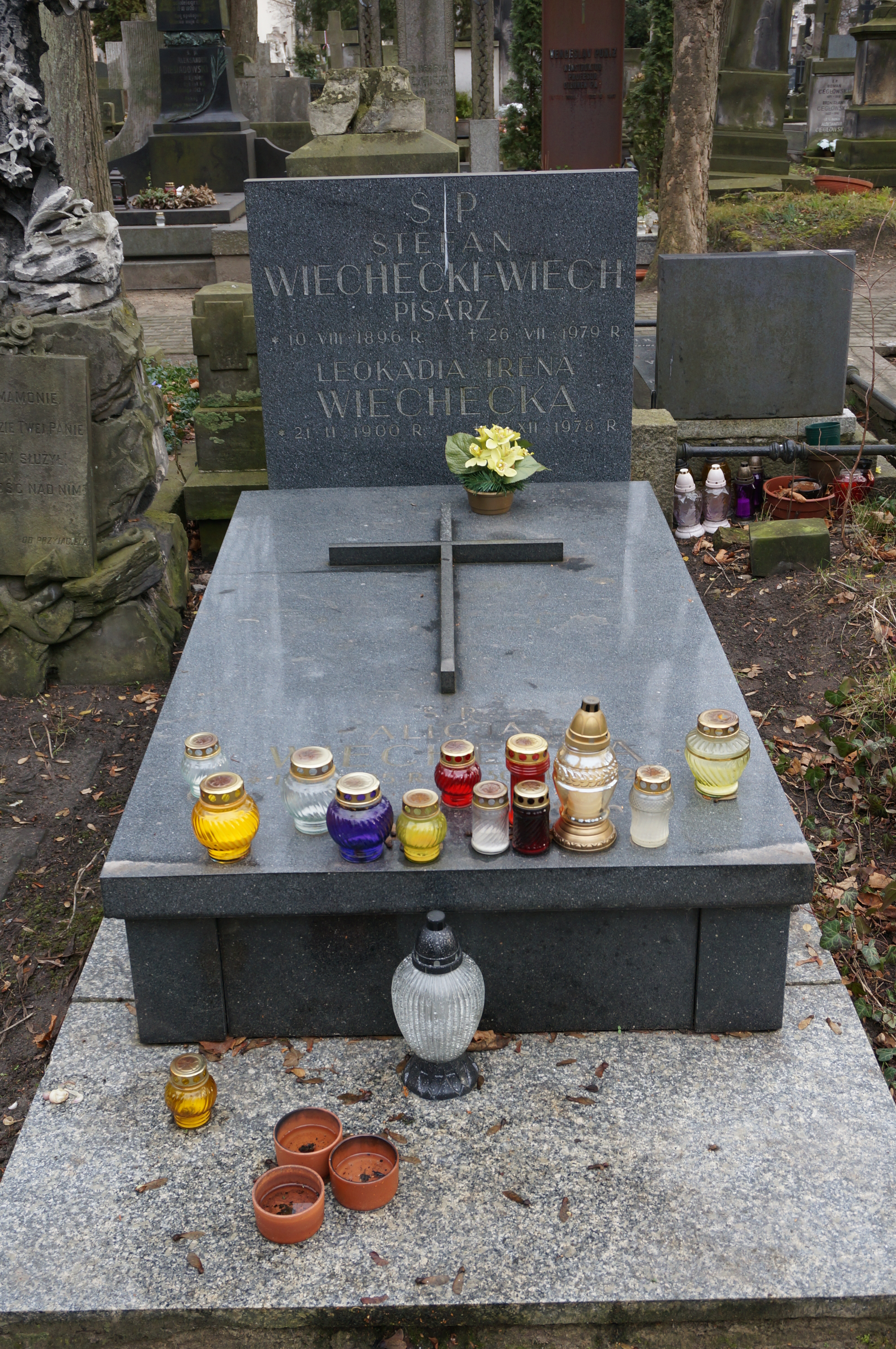 The grave of Stefan Wiechecki at the Powązki Cemetery (section 169, row 2, grave 8)